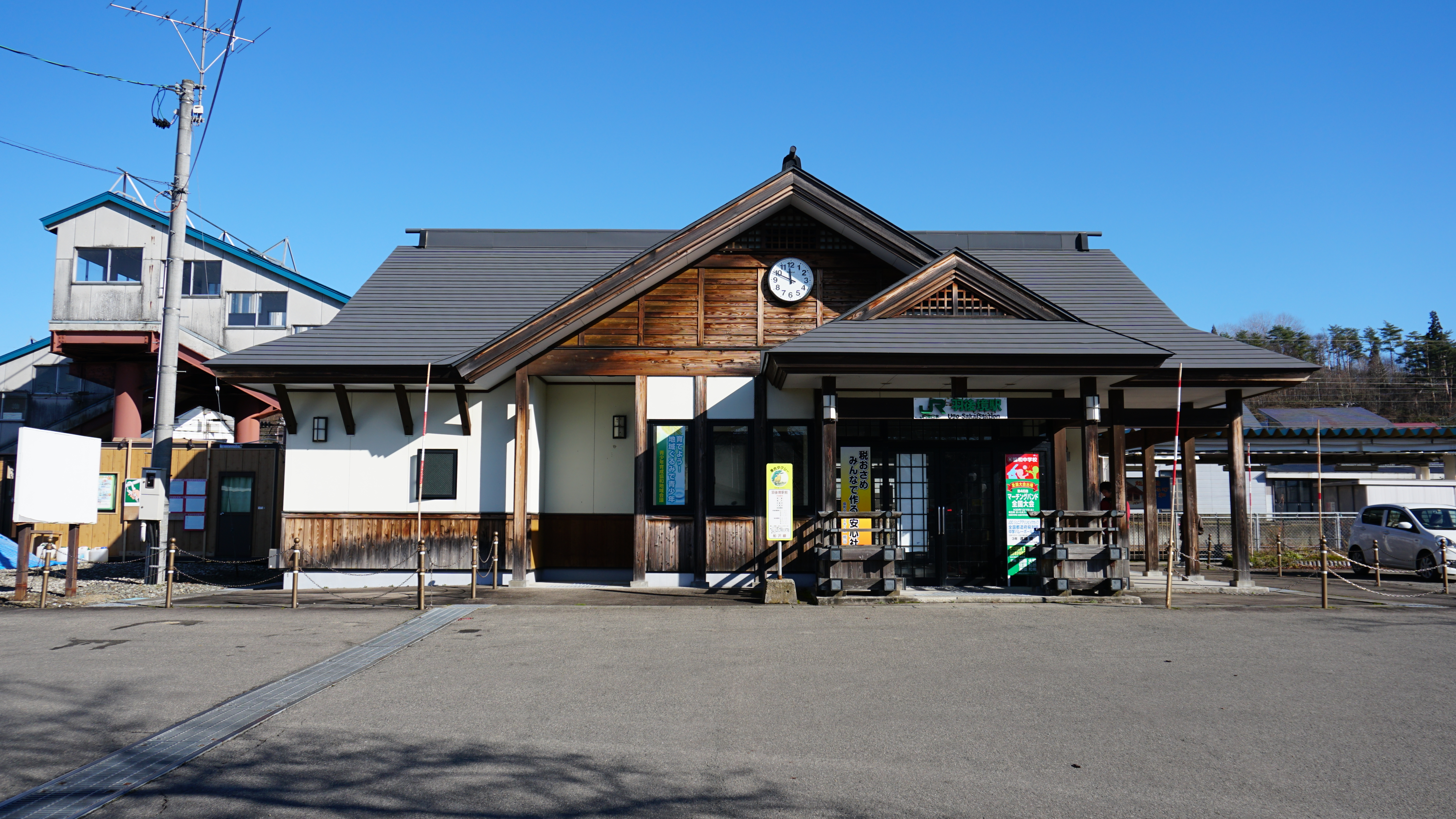 Ugo-Sakai Station on the Ou Main Line, in Daisen City, Akita, Japan Sony ILCE-6300